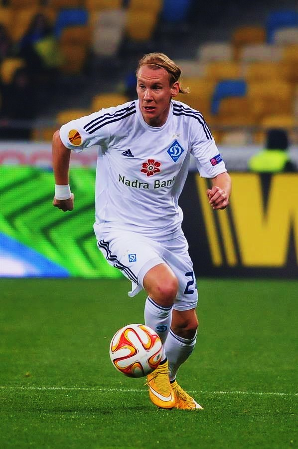 Domagoj Vida